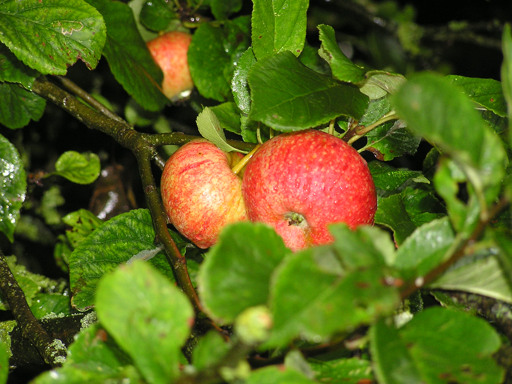 Beauty of Bath Apples photographed in the garden